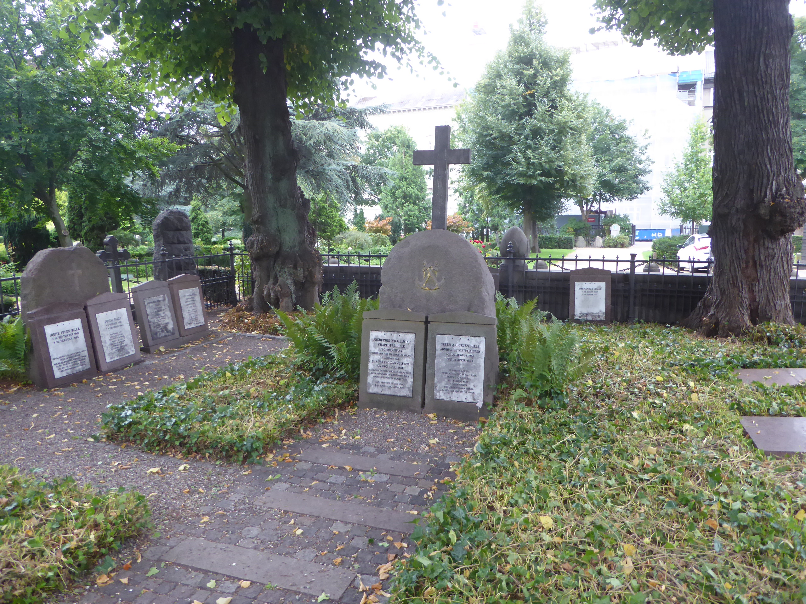 Grave of the admiral Steen Andersen Bille (1751-1833) at Holmens Kirkegård in Østerbro in Copenhagen.